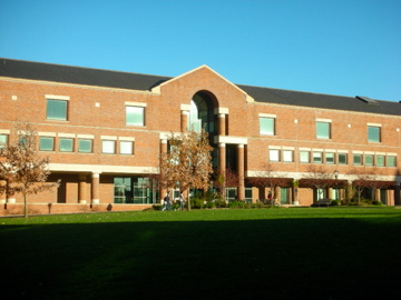 University of Missouri School of Law, Hulston Hall, built 1988